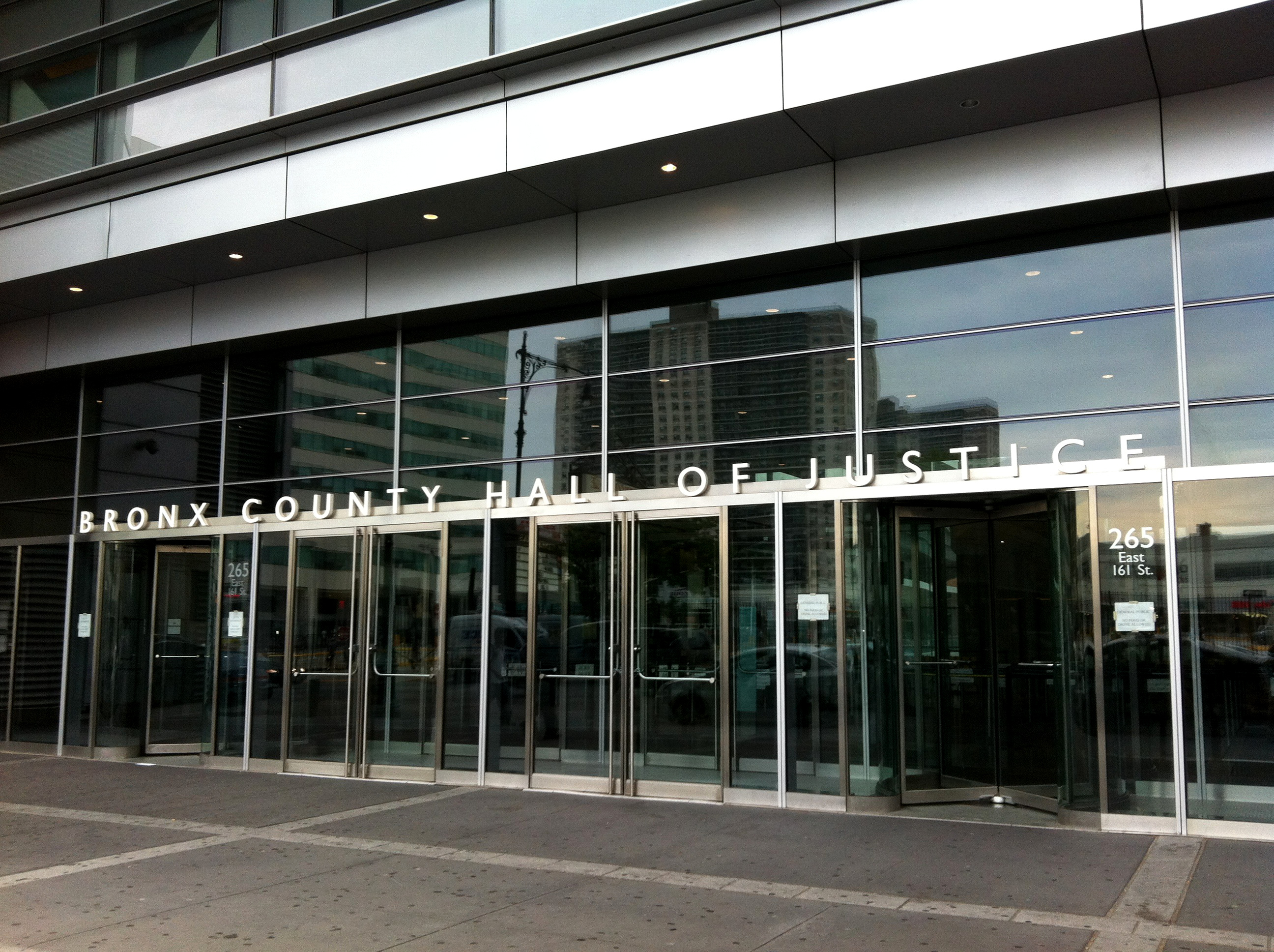 Photo of the front of the Bronx County Hall of Justice on East 161st Street, with window pane exterior.